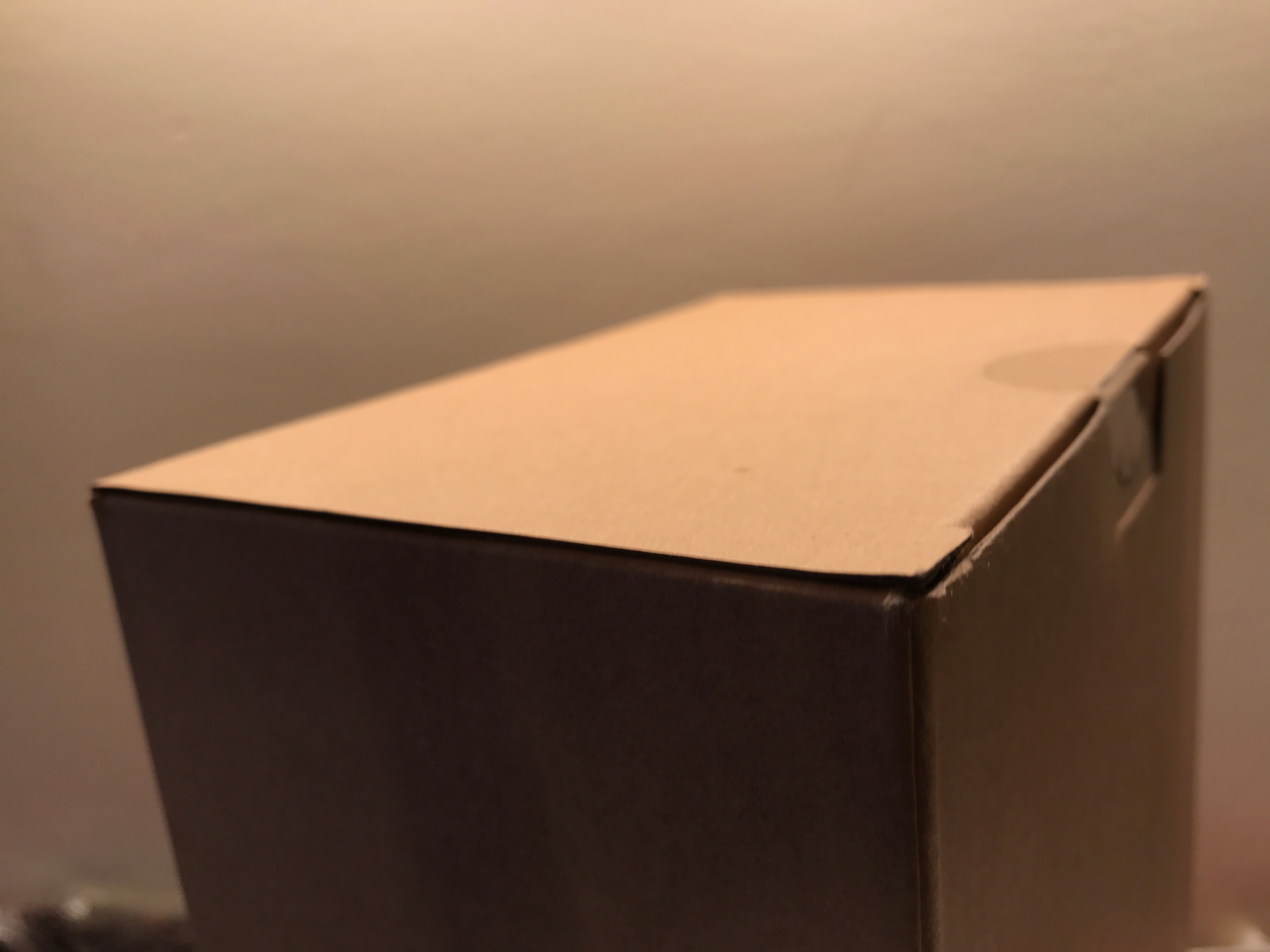 Folding carton with tab closed and with a circular tamper evident seal